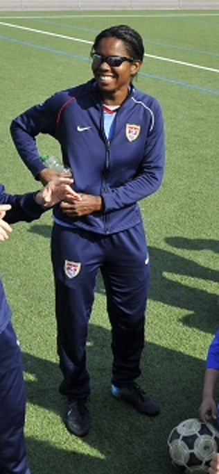 photo of Briana Scurry